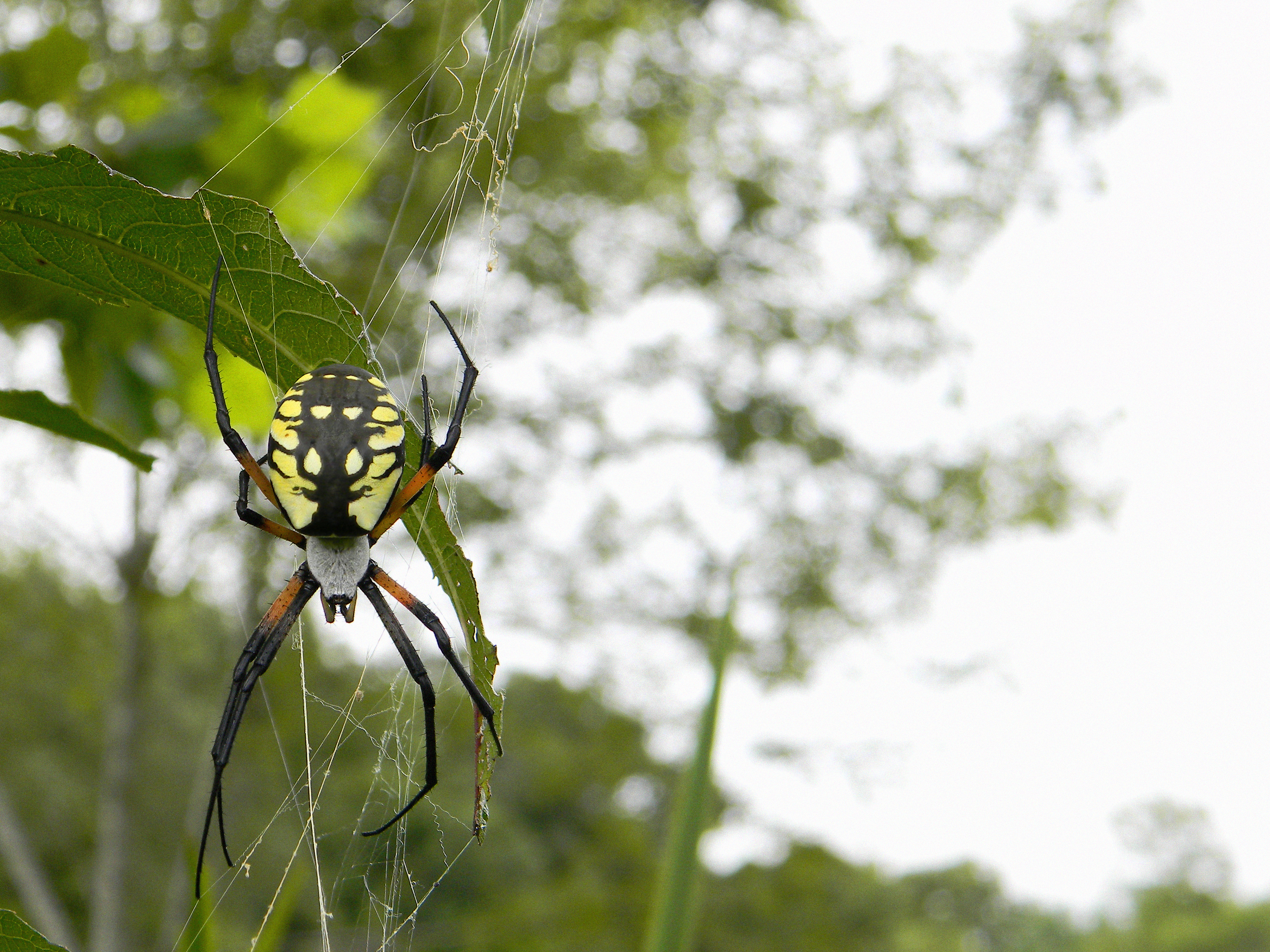 Corn Spider in its natural habitat.